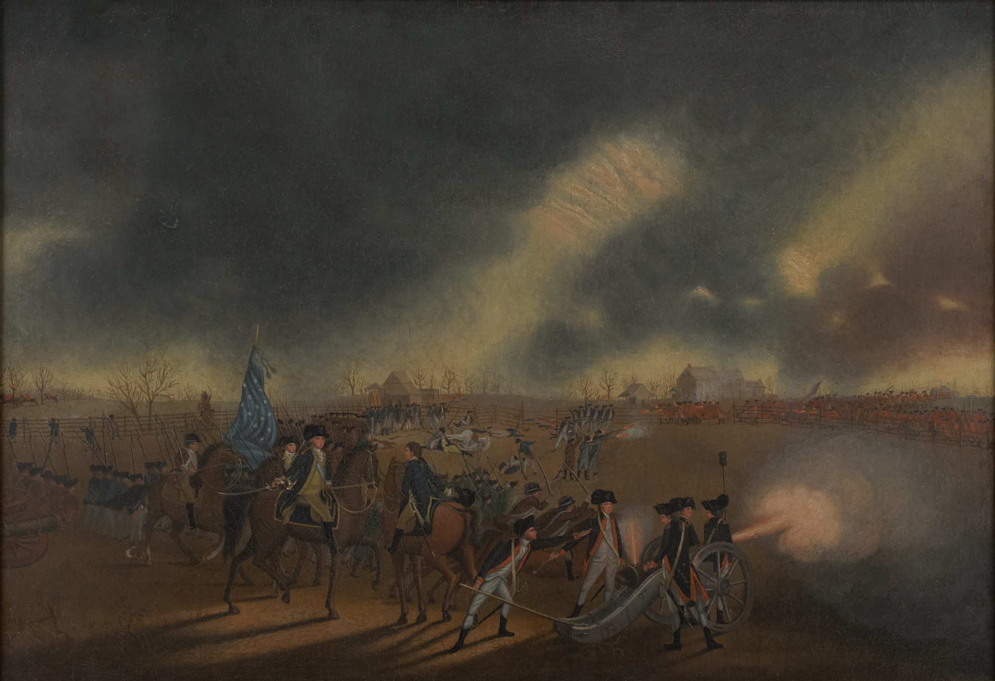 The Battle of Princeton on January 3, 1777. Also depicts George Washington's personal flag, or headquarters flag, thirteen white six-pointed stars in apparently a 4-5-4 pattern on a field of blue.